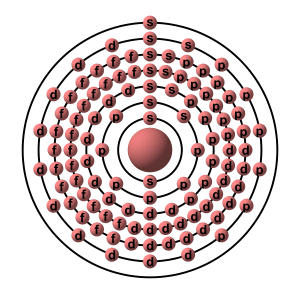 This is a part of a series of drawings of the individual elements electron configuration: Each diagram shows the electron shells with the number of electrons, and furthermore, each electron bears a letter "s", "p", "d" or "f" which shows the orbital electrons belong. This drawing depicts electron configuration in a atom: The big ball in the middle depicts the nucleus, and the little balls are electrons. The color on the big ball in the middle is green for non-metals, blue for the noble gases, violet for actinoids, purple pink for transition metals, red alkali metals, gray for "Other metals", yellow for halogens, orange for the alkaline earth metal arts and brown for half metals.